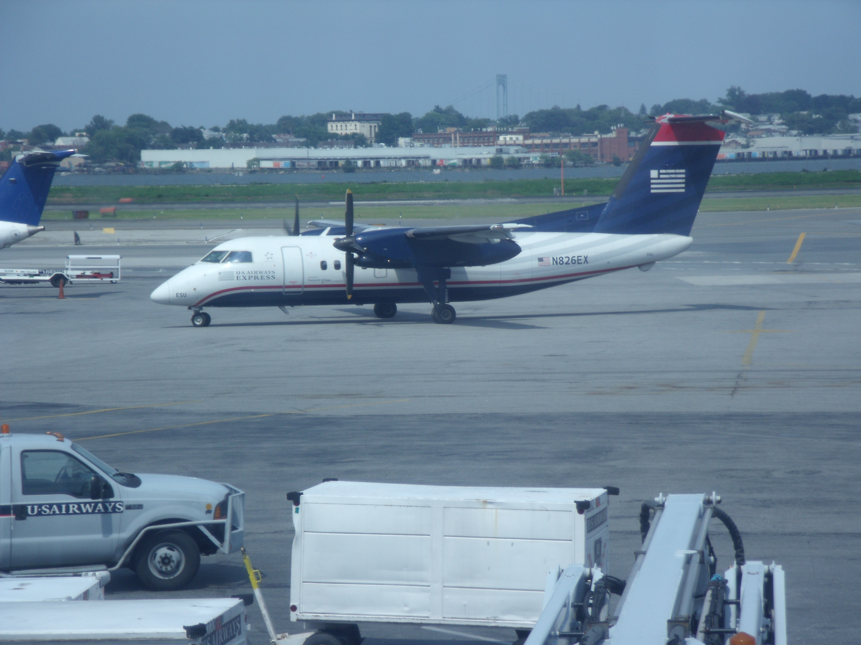 Piedmont Airlines (US Airways Express) DHC-8-102 at LaGuardia airport.